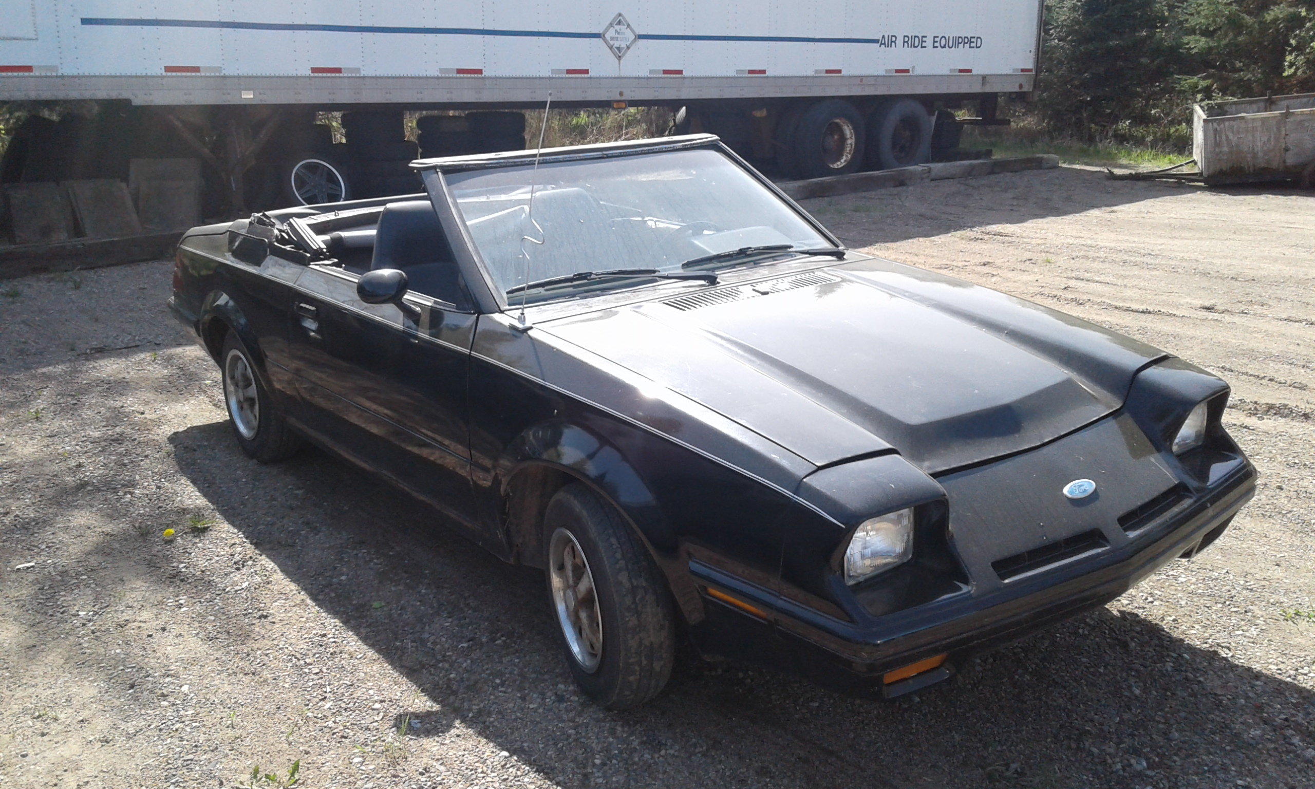 A 1982 Ford EXP 4-speed convertible made by Dynamic Conversions of Hillsdale, MI for Ford Motor Company. This one is number 2 of only 8.